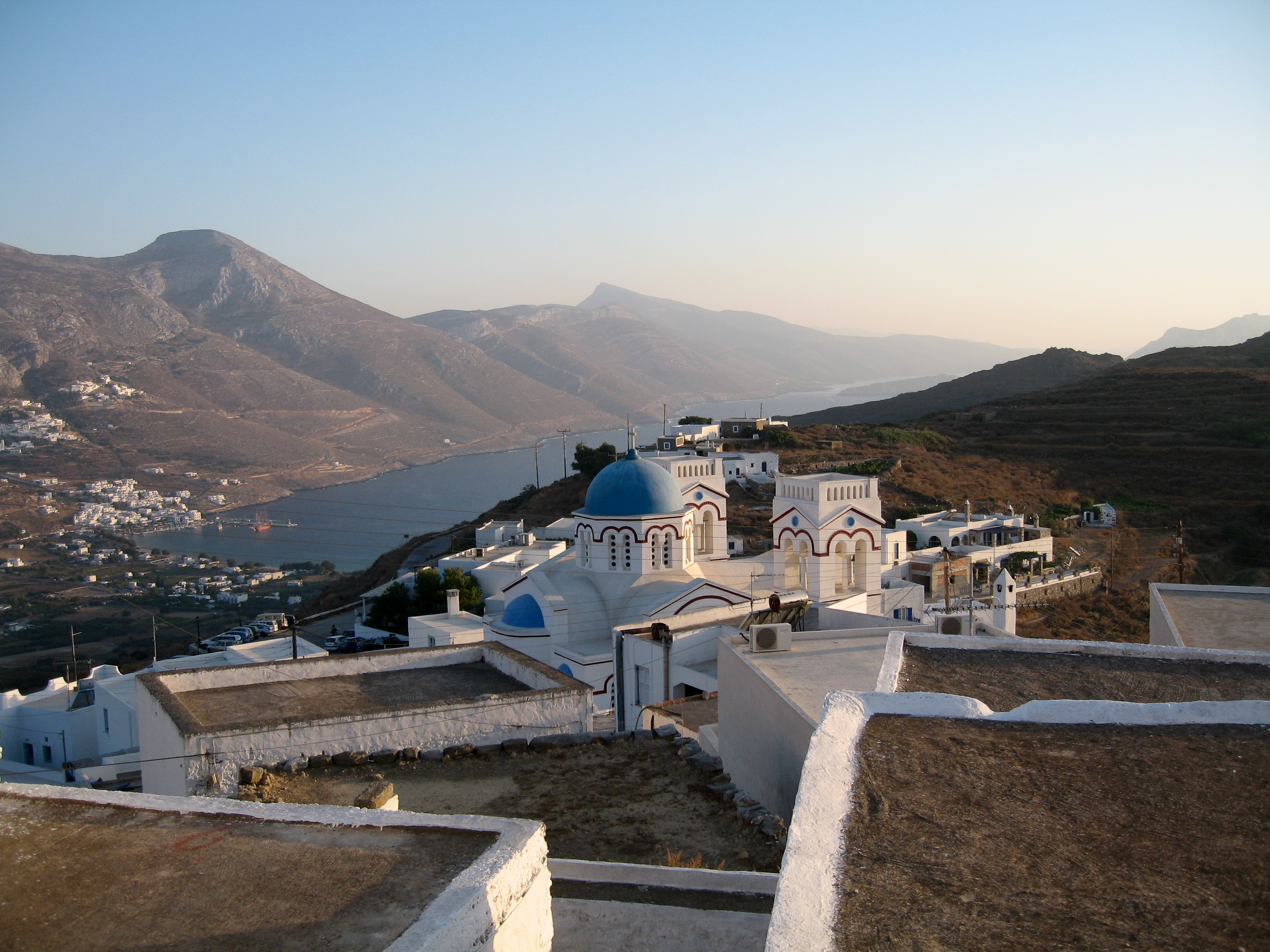 Amorgos Island, Greece, village of Tholaria (Egiali bay)